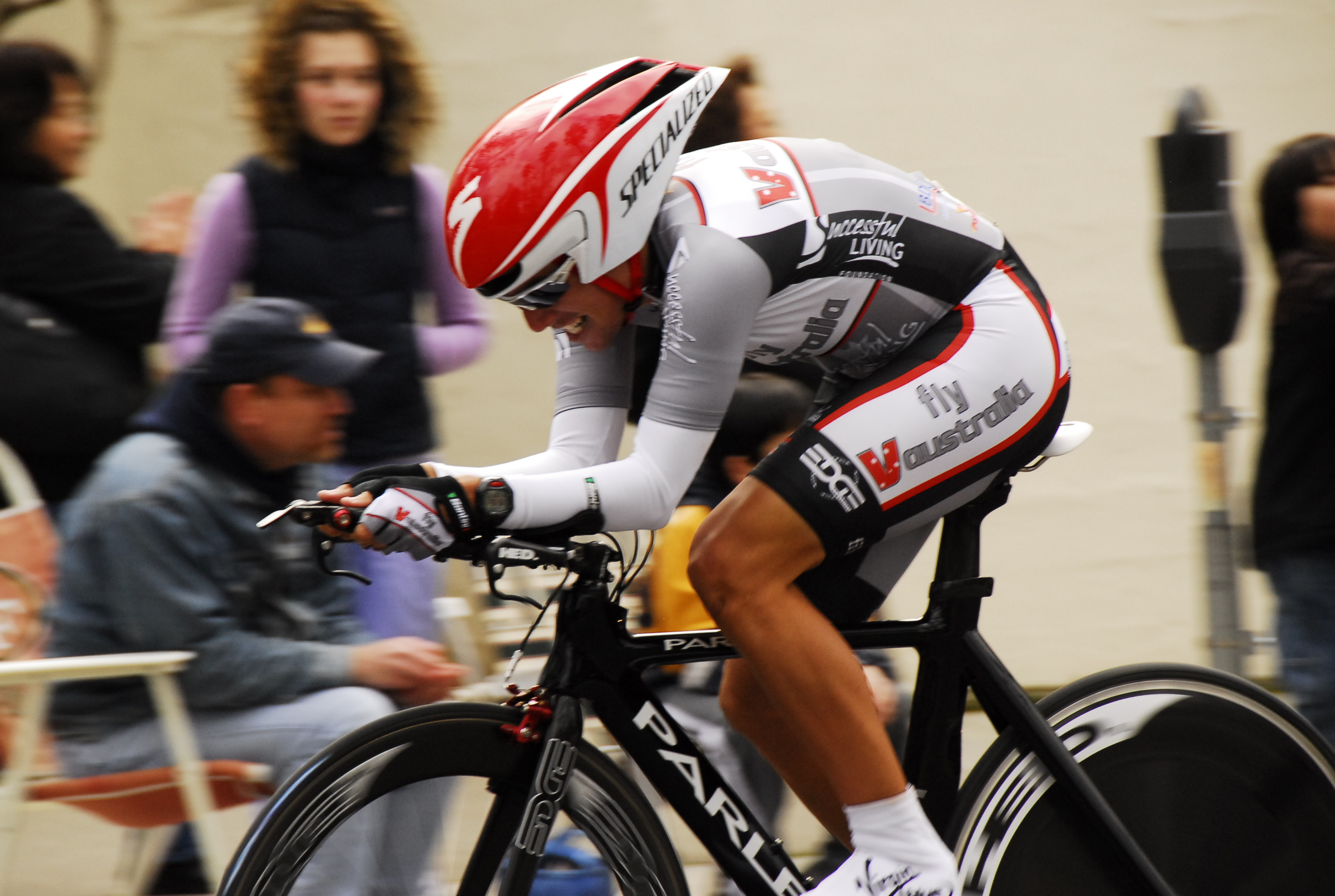 Scott Davis, Tour of California 2009.